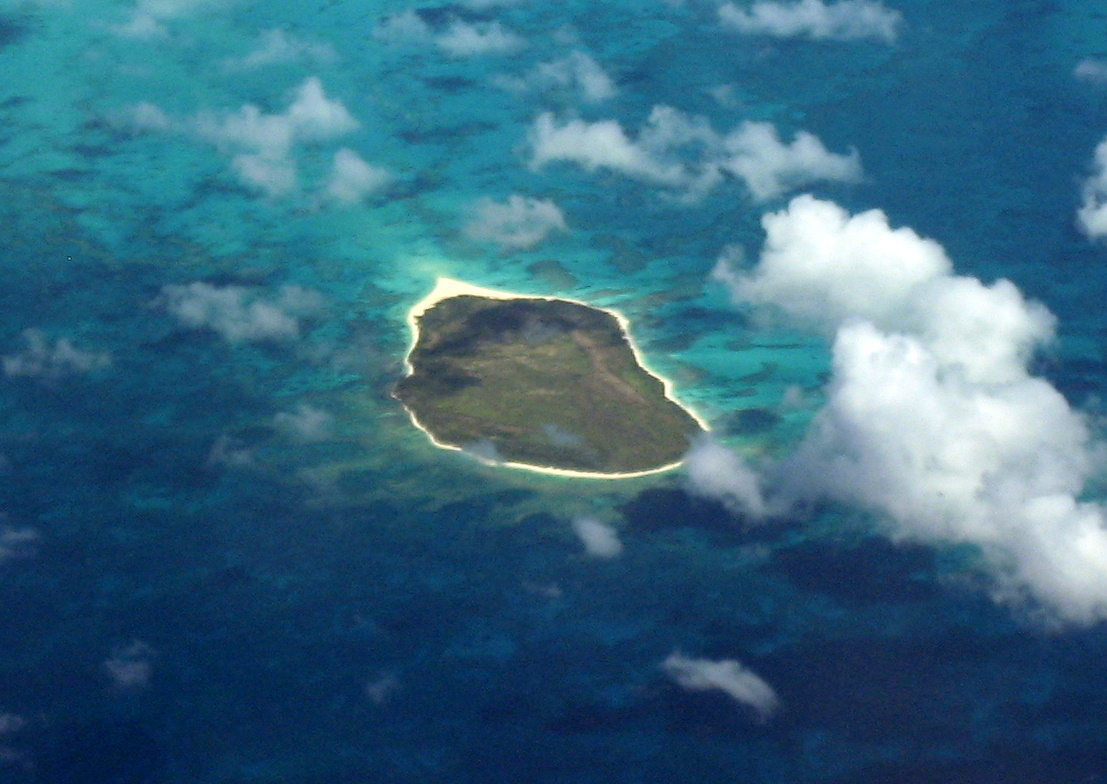 Lisianski Island, Northwestern Hawaiian Islands, from 33,000 feet. Looking south